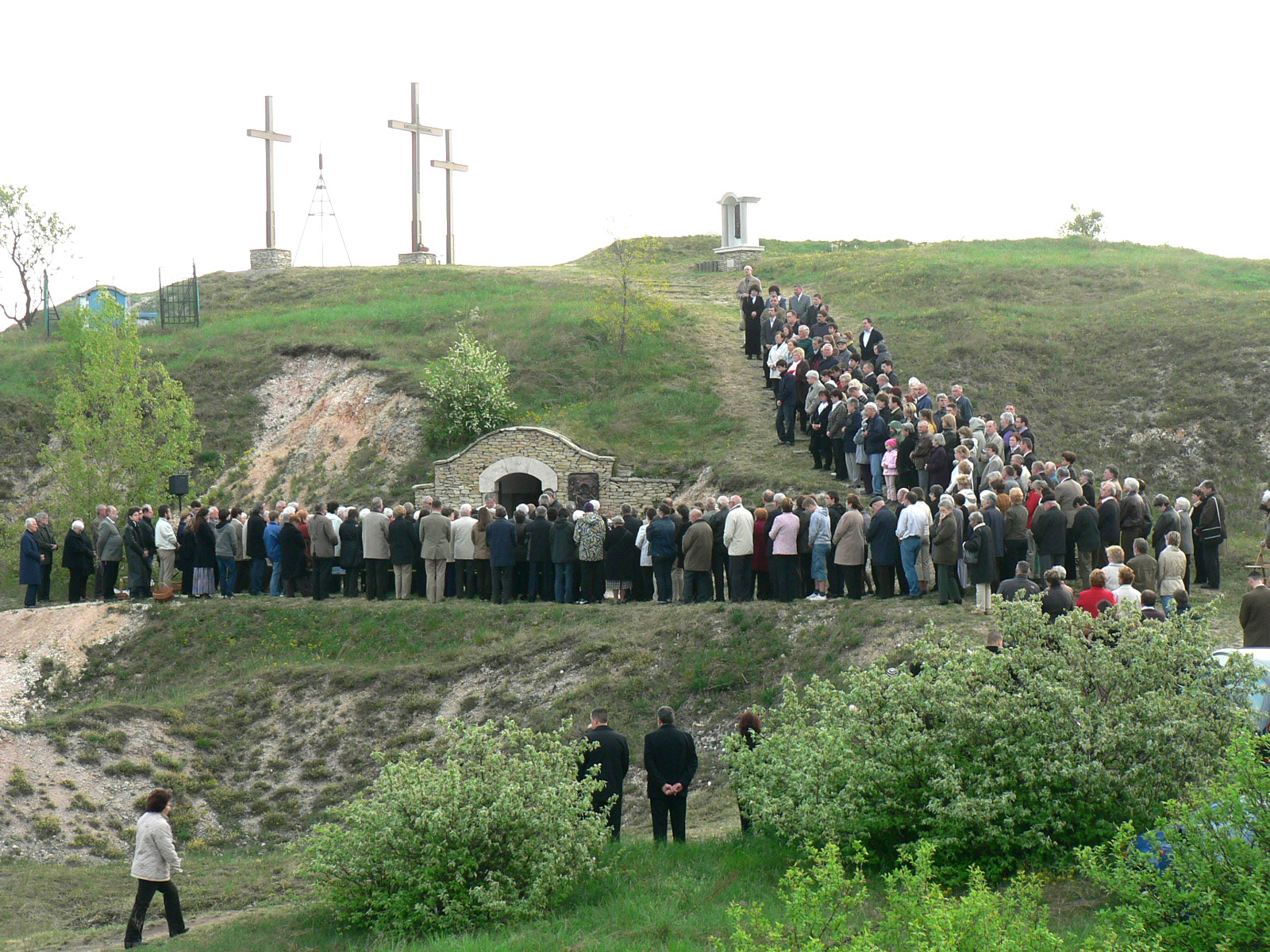 Szabadtéri istentisztelet Húsvétvasárnap a Szél-hegyen